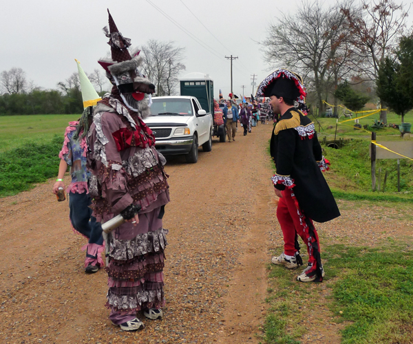 Participants of the 2011 Faquetaigue Courir de Mardi Gras in Savoy, La. On the right is "Le Capitane", one of the unmasked leaders of the groups whose job is to keep the revelers in line. To the left is a participant whose costume is based on a figure from Cajun French mythology, the Rougarou or werewolf.